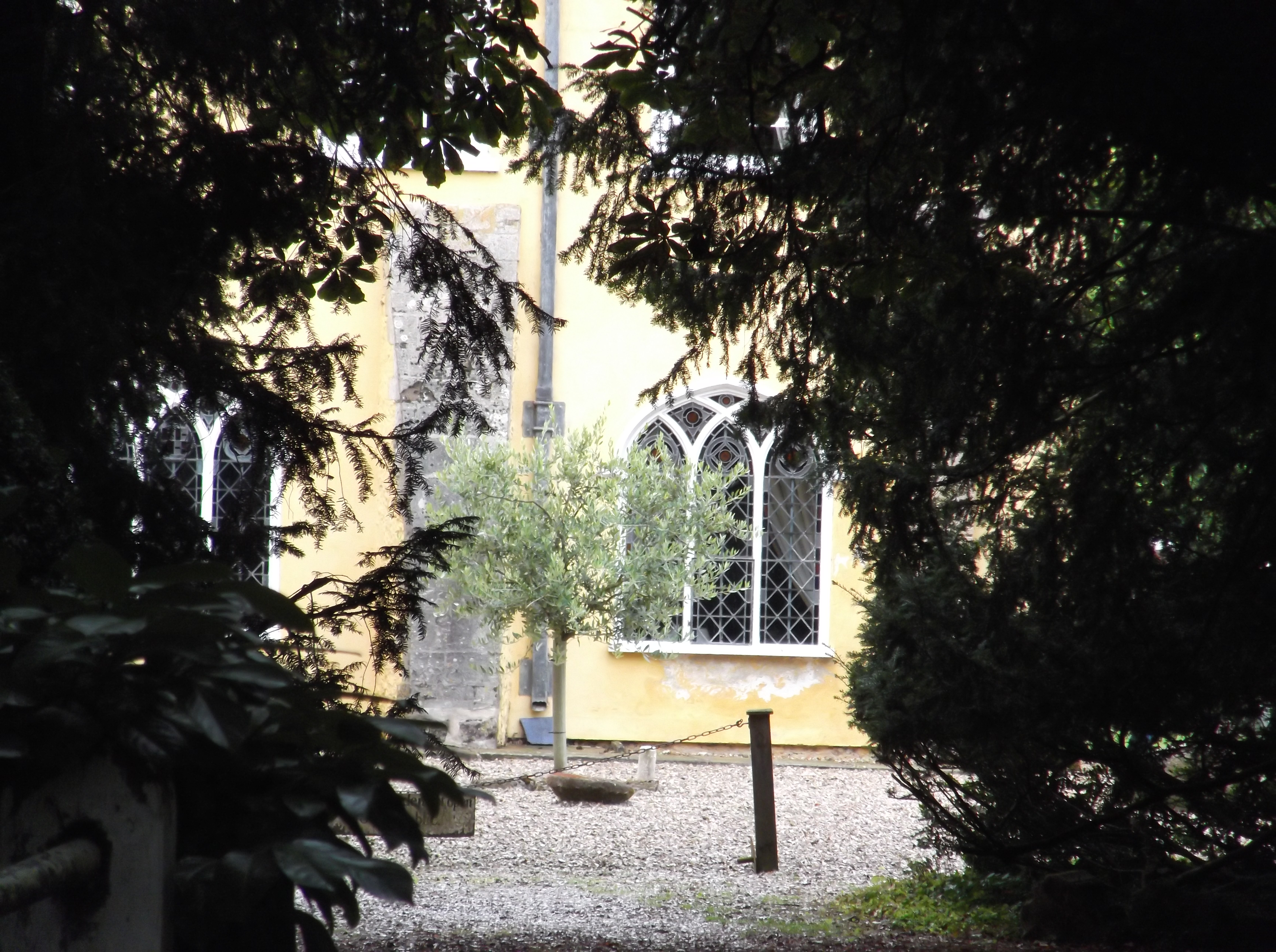 Photograph of Ixworth Abbey, house incorporating the remains of the medieval Augustinian priory on the site